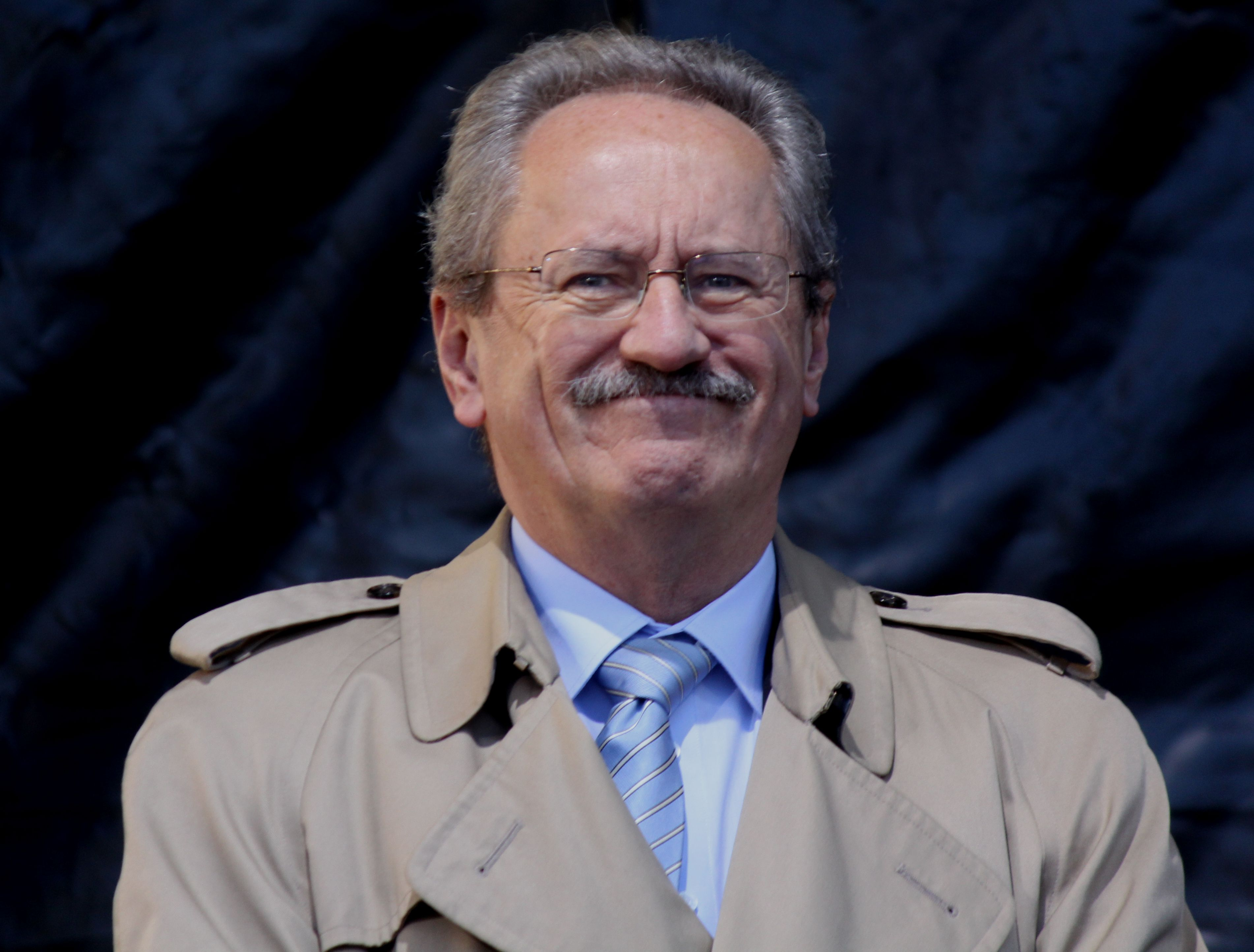 Christian Ude, mayor of Munich, Germany, photographed on Dec 14, 2013 at the opening ceremony of a new tram track in Pasing (showing his characteristical smile)